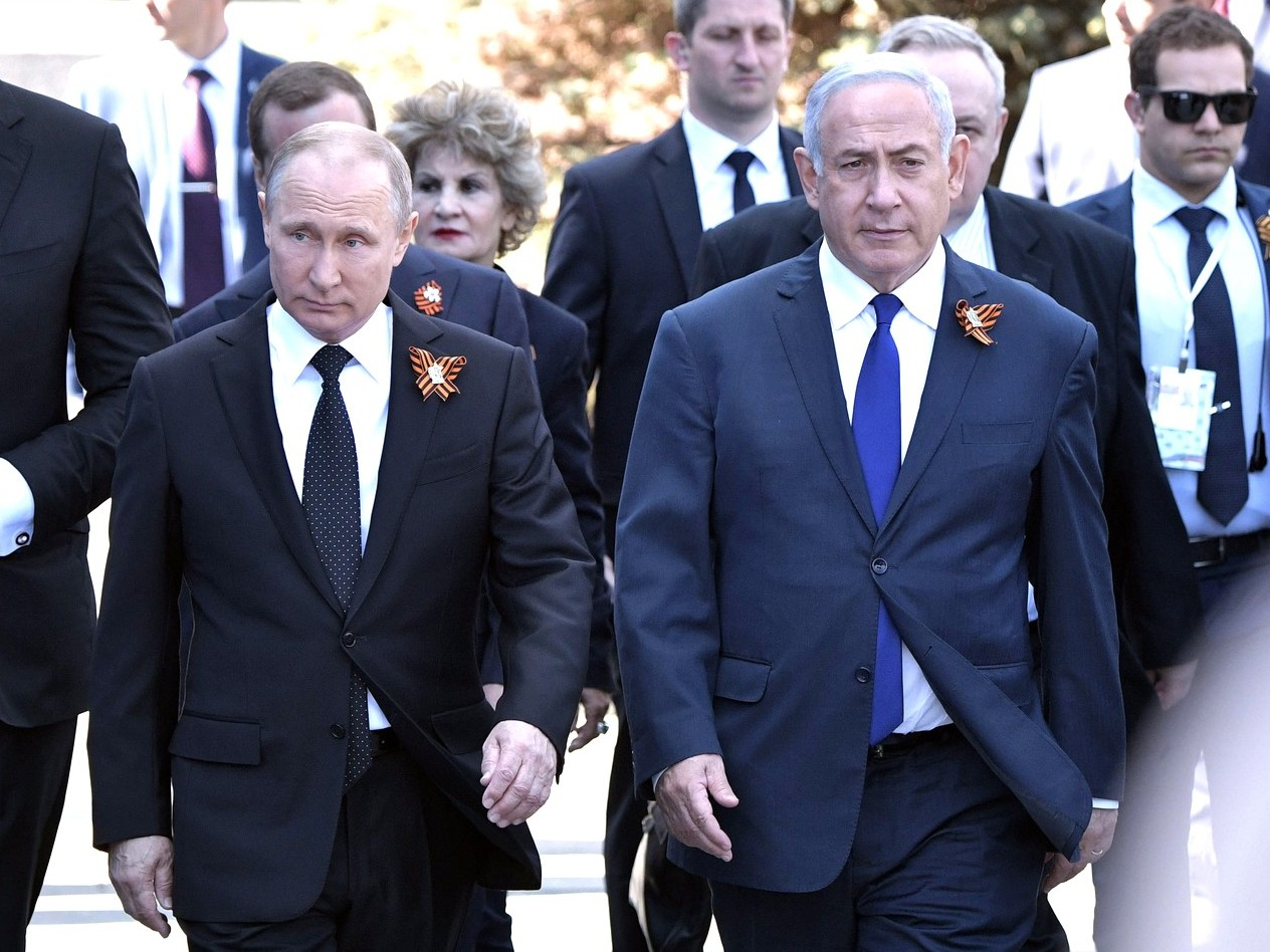 The PM of Israel, Benjamin Netanyahu, accompanying the President of Russia, Vladimir Putin, at the 2018 Moscow Victory Day Parade